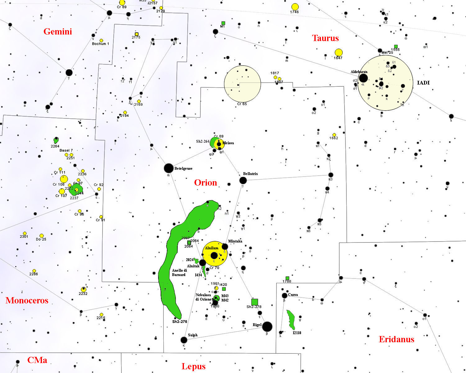 Orion constellation map, with DSOs